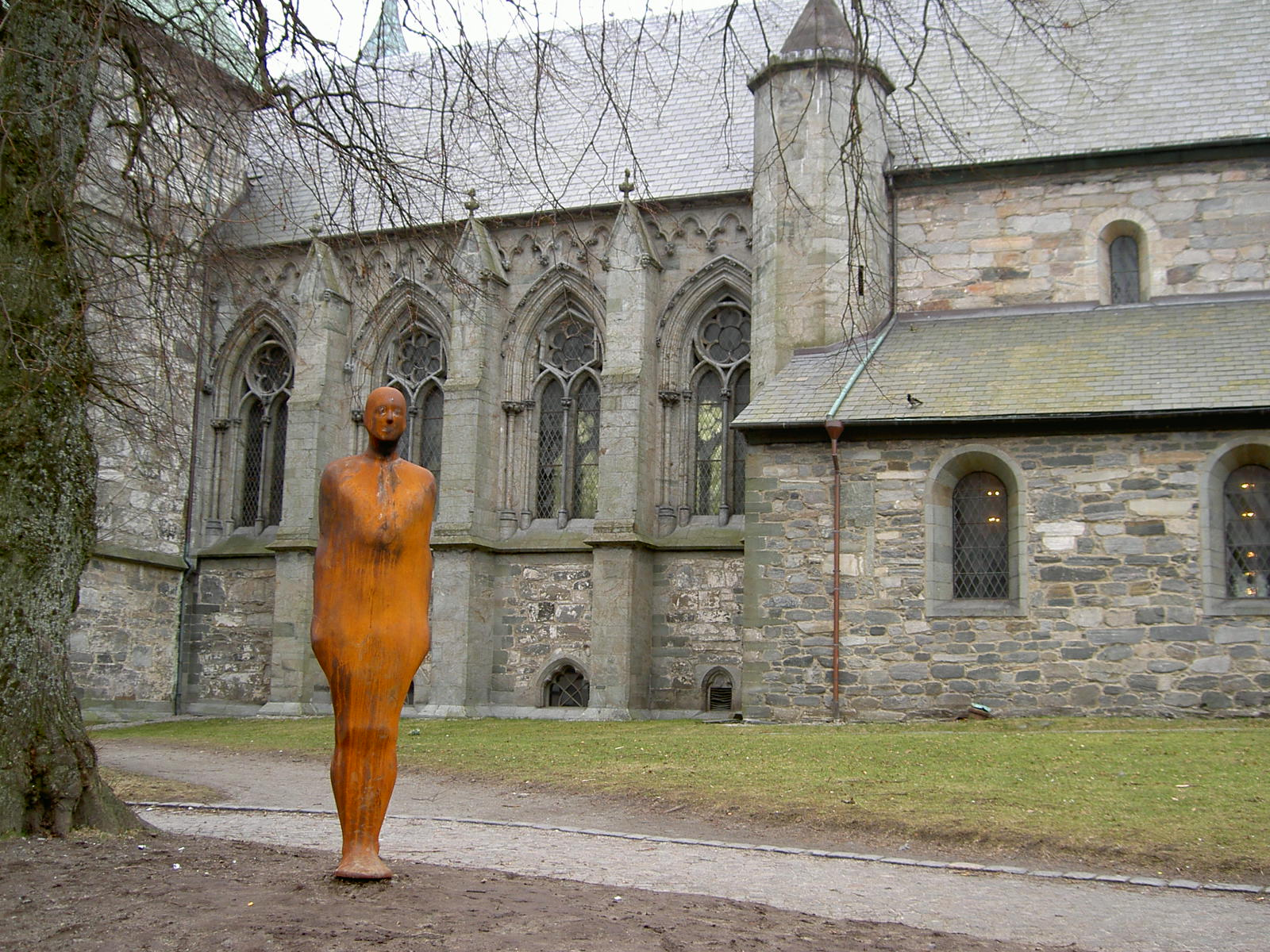 In front of the Dome Church